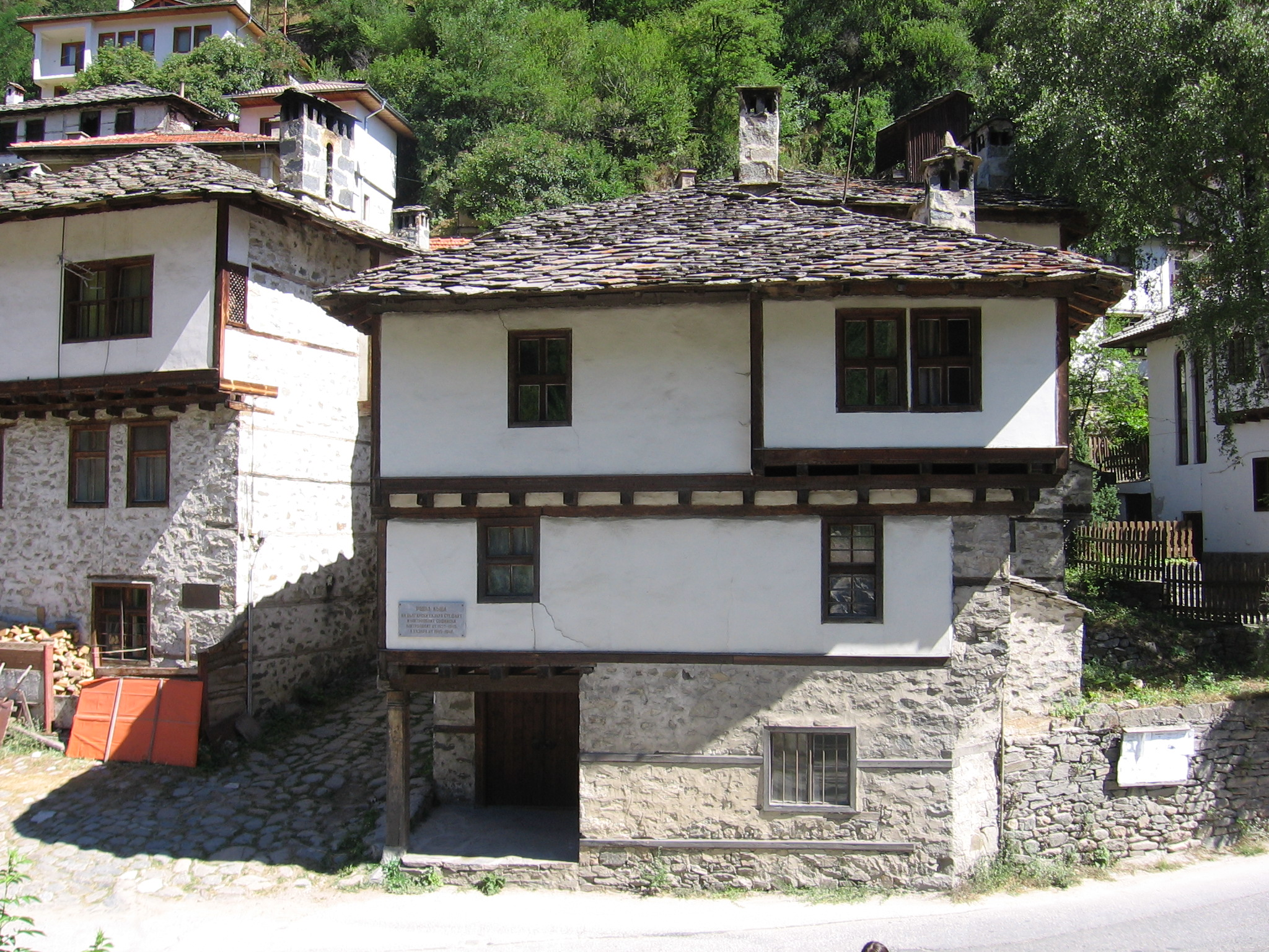 The house of Exarch Stefan in village Shiroka luka, Bulgaria